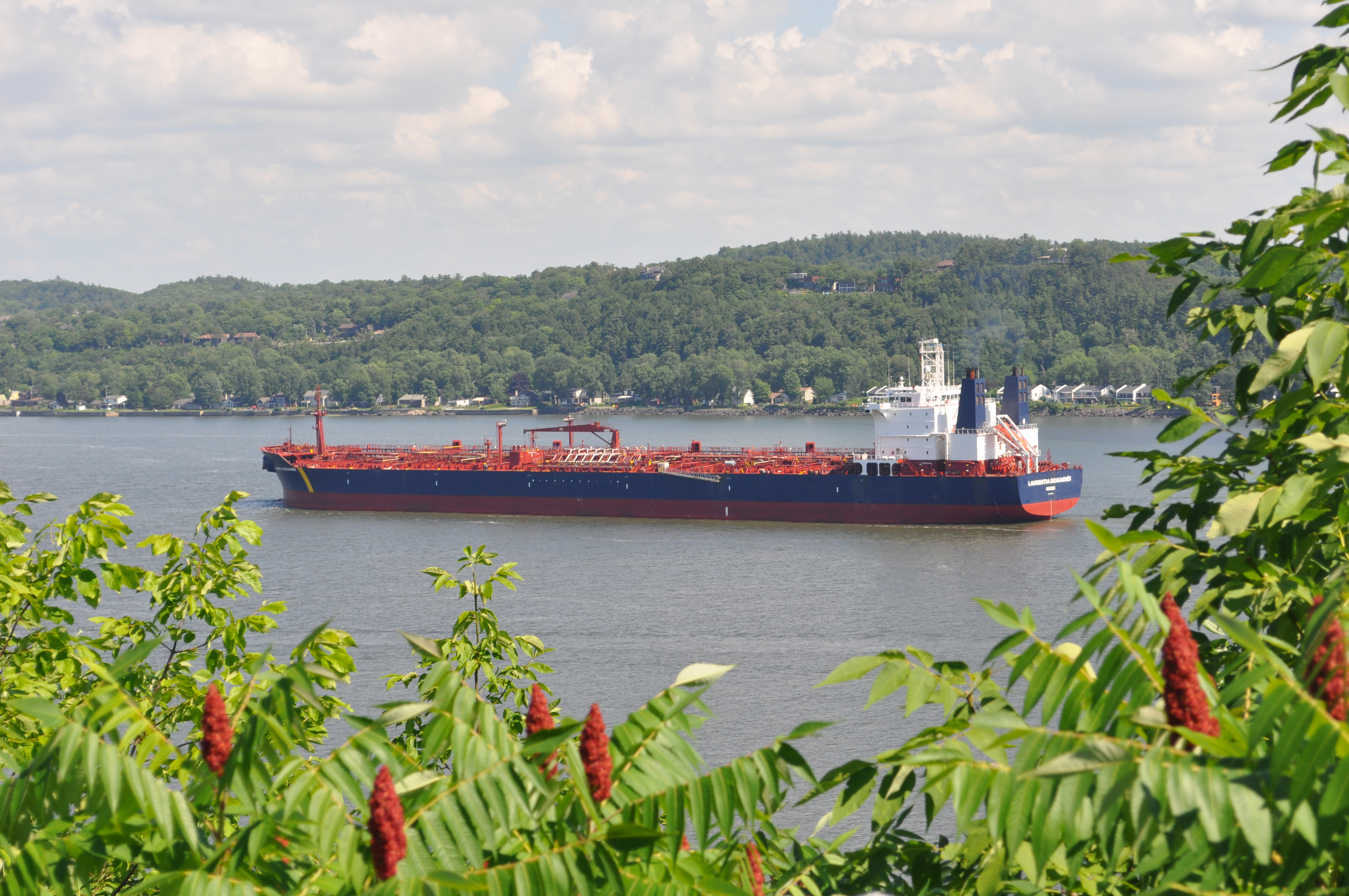 The ship Laurentia Desgagnés on the St. Lawrence River near Québec city. The shoreline of Lévis is seen in the background.